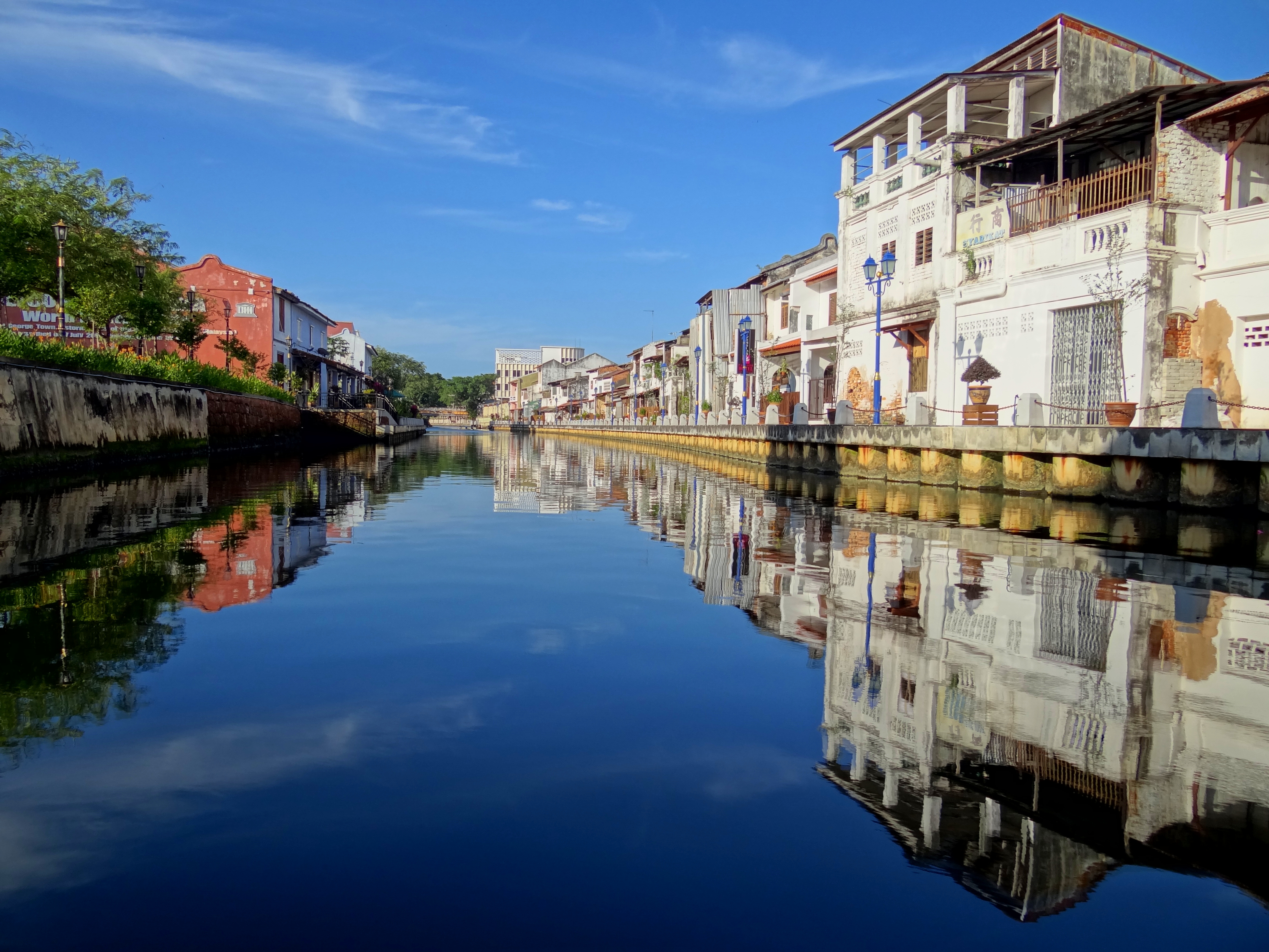 The canal-like river floating through the old town in Malacca.